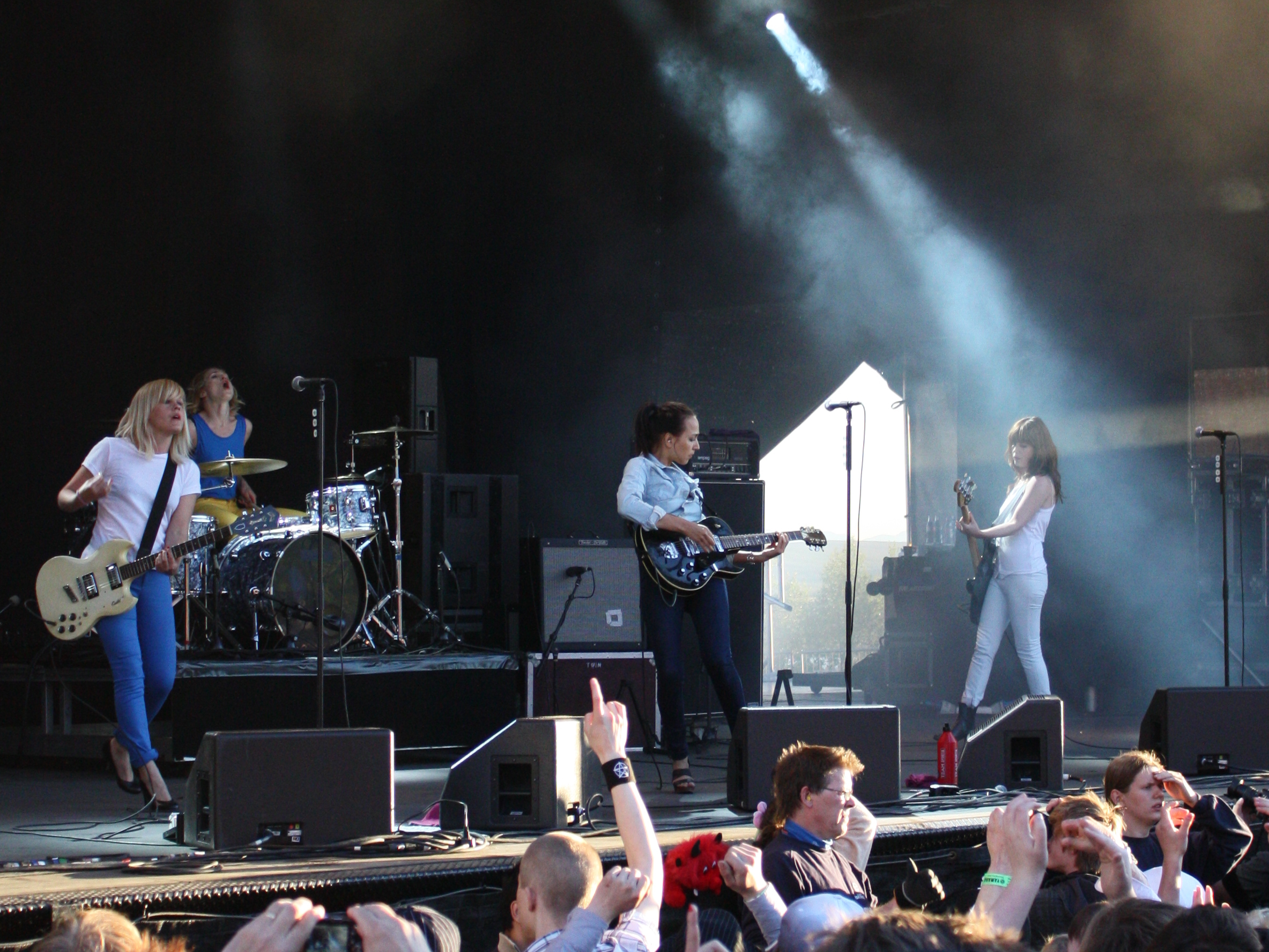 Swedish rock-band Sahara Hotnights playing at Kirunafestivalen in Sweden.